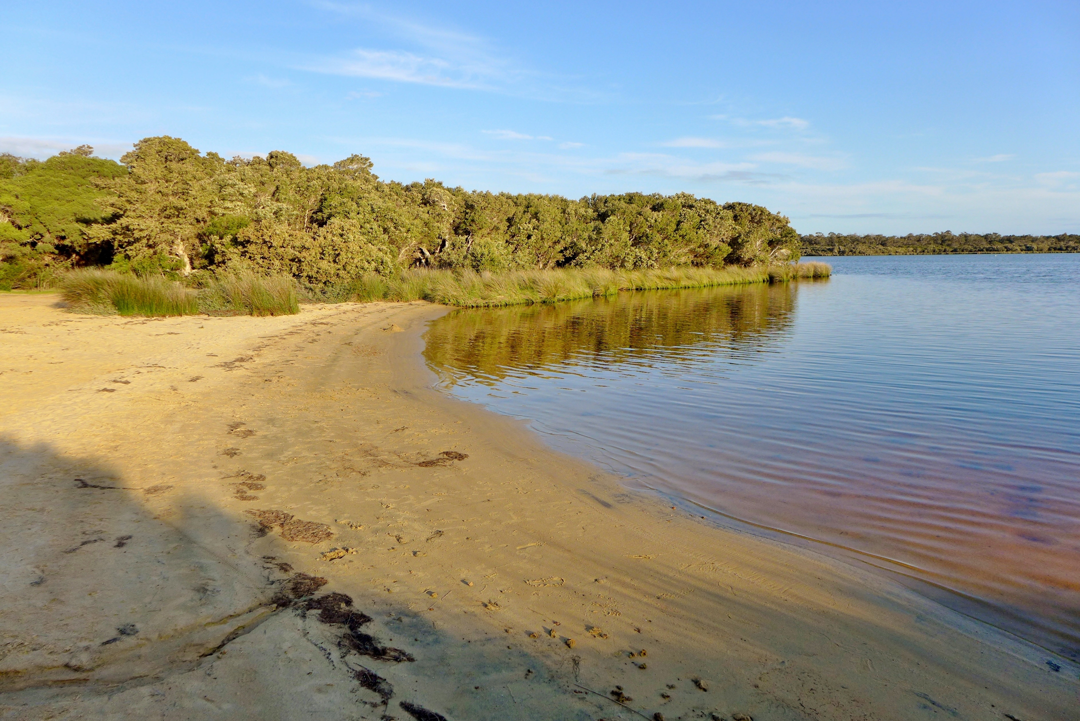 View of and from Sandy Beach, on Molloy Island, near Augusta, Western Australia.